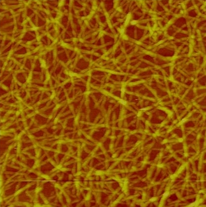 AFM height image of carboxymethylated nanocellulose adsorbed on a silica surface. (Innventia AB, Sweden)